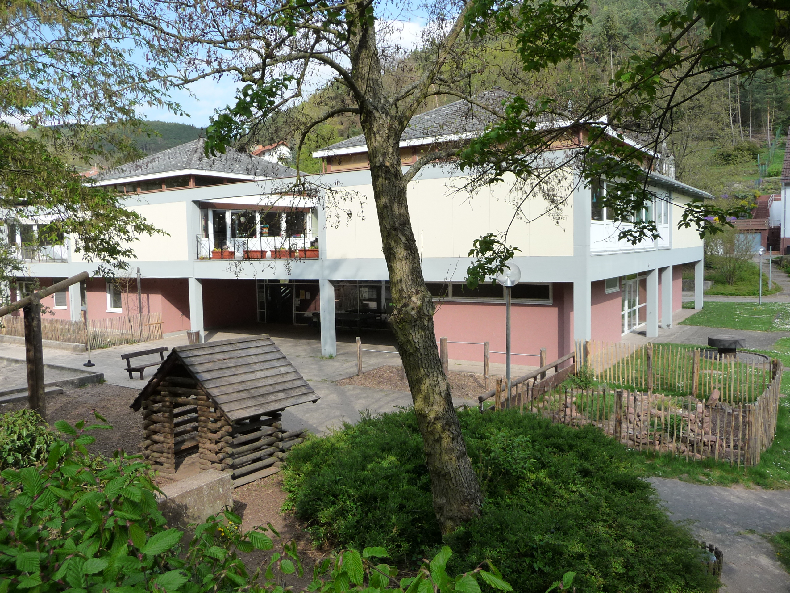 Lindenberg (Pfalz)